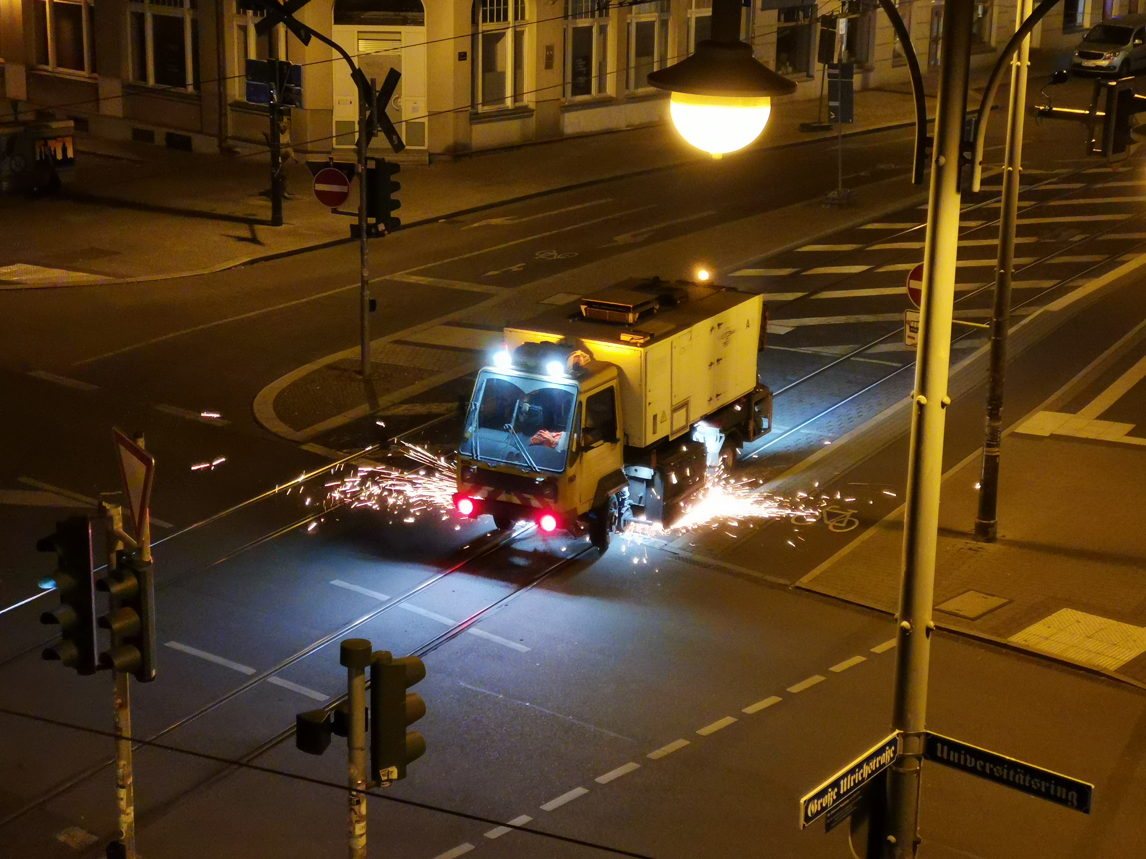 A light road–rail-railgrinder Ro-V 149 by Möser Maschinenbau GmbH grinds the rails of the tram in Halle (Saale) near the station Moritzburgring.